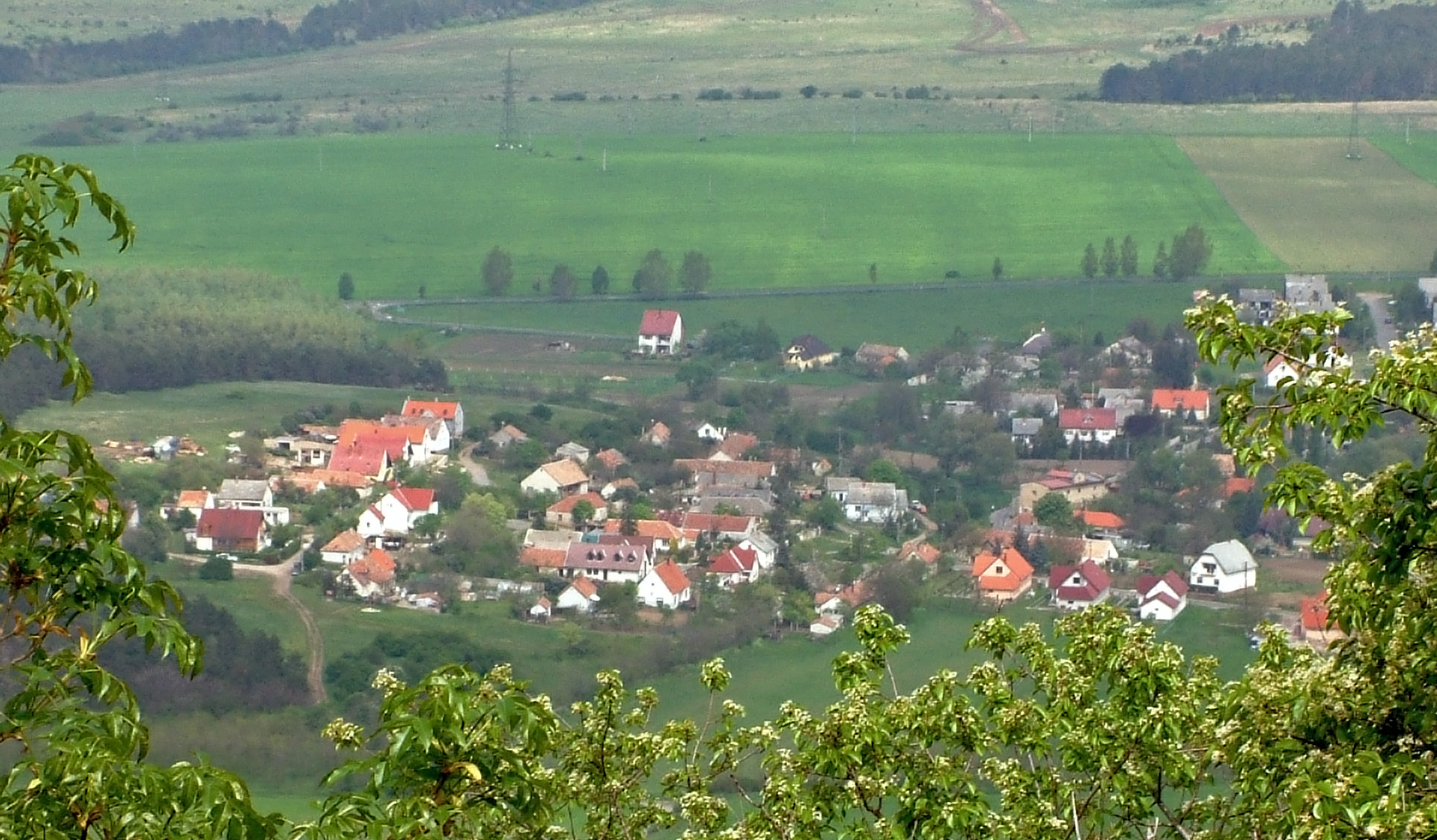 Diszel from the top of the hill 'Csobánc'